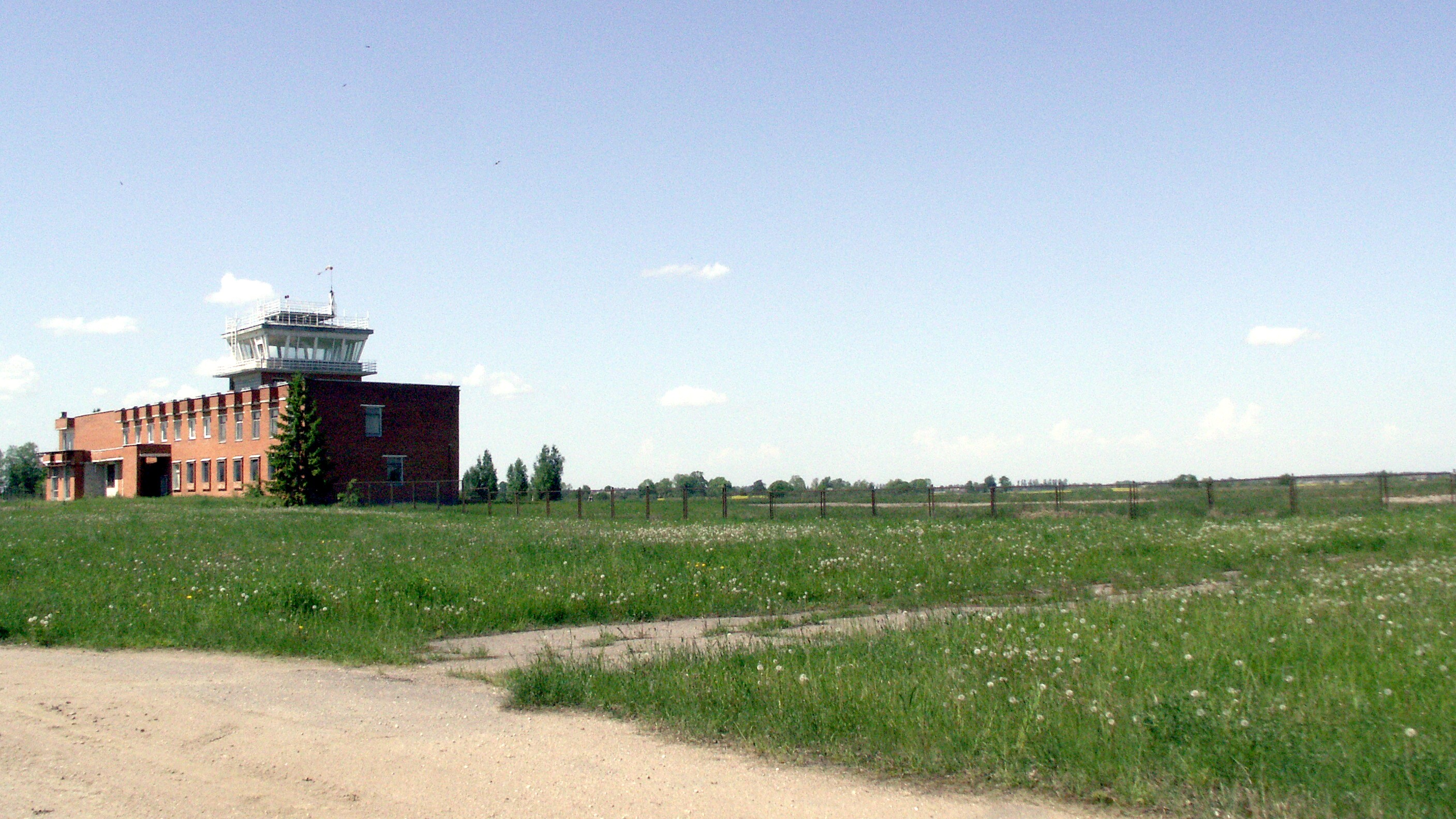 Barysiai aerodrome, Joniškis district, Lithuania